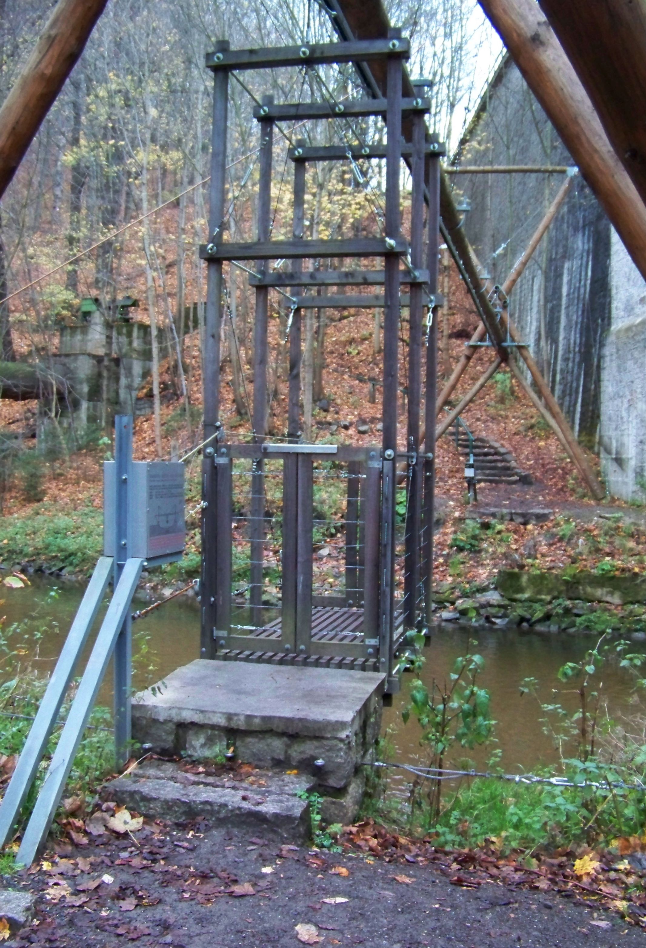 Liberec-Machnín and Chrastava-Andělská Hora, Liberec District, Liberec Region, Czech Republic. A transporter bridge over the Lussatian Neisse near Harmštejn Castle. - OpenStreetMap (Info)